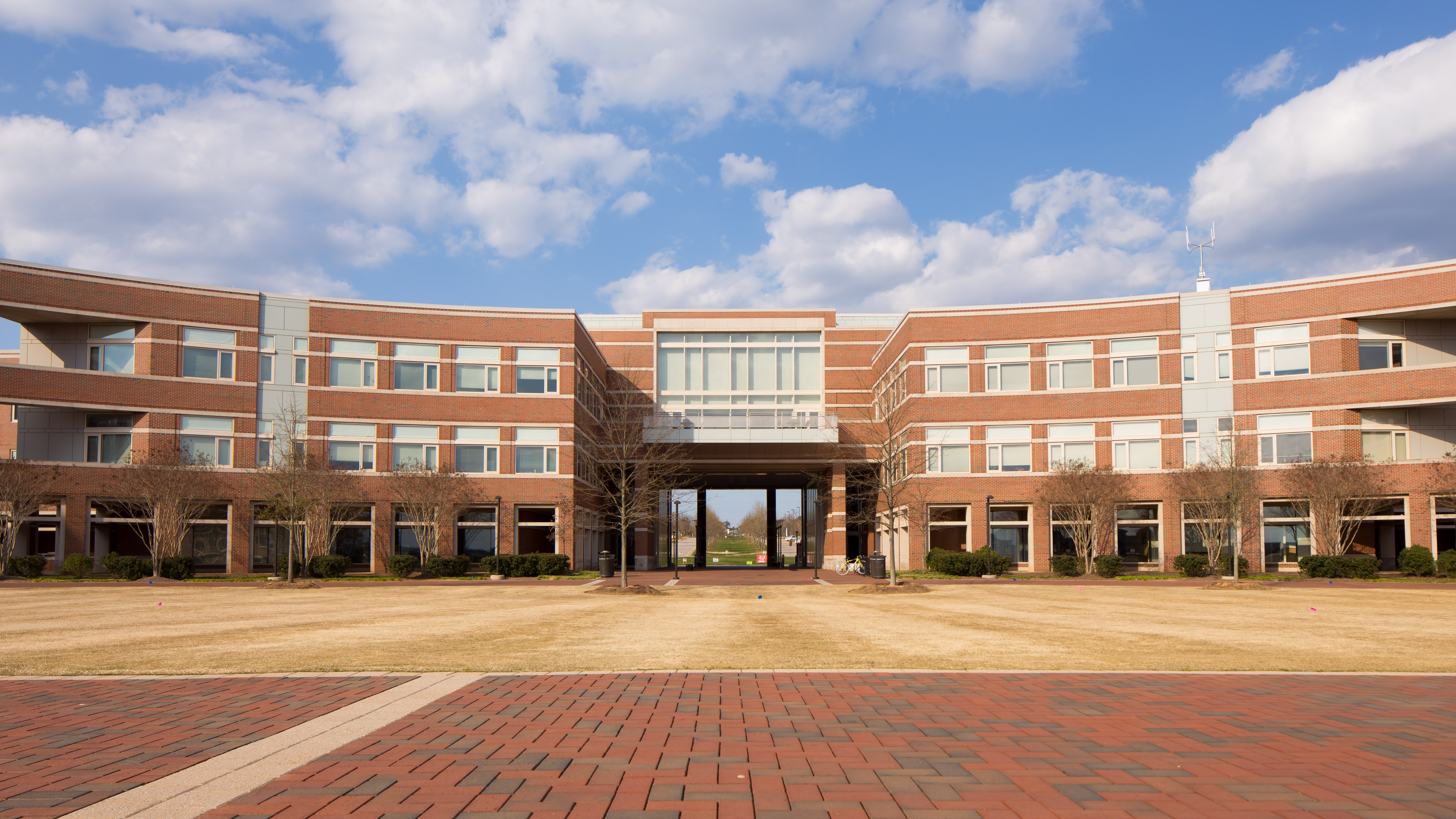 NCSU's College of Engineering Building II Taken using a Canon 6D with Canon TS-E 24mm f/3.5L II lens.